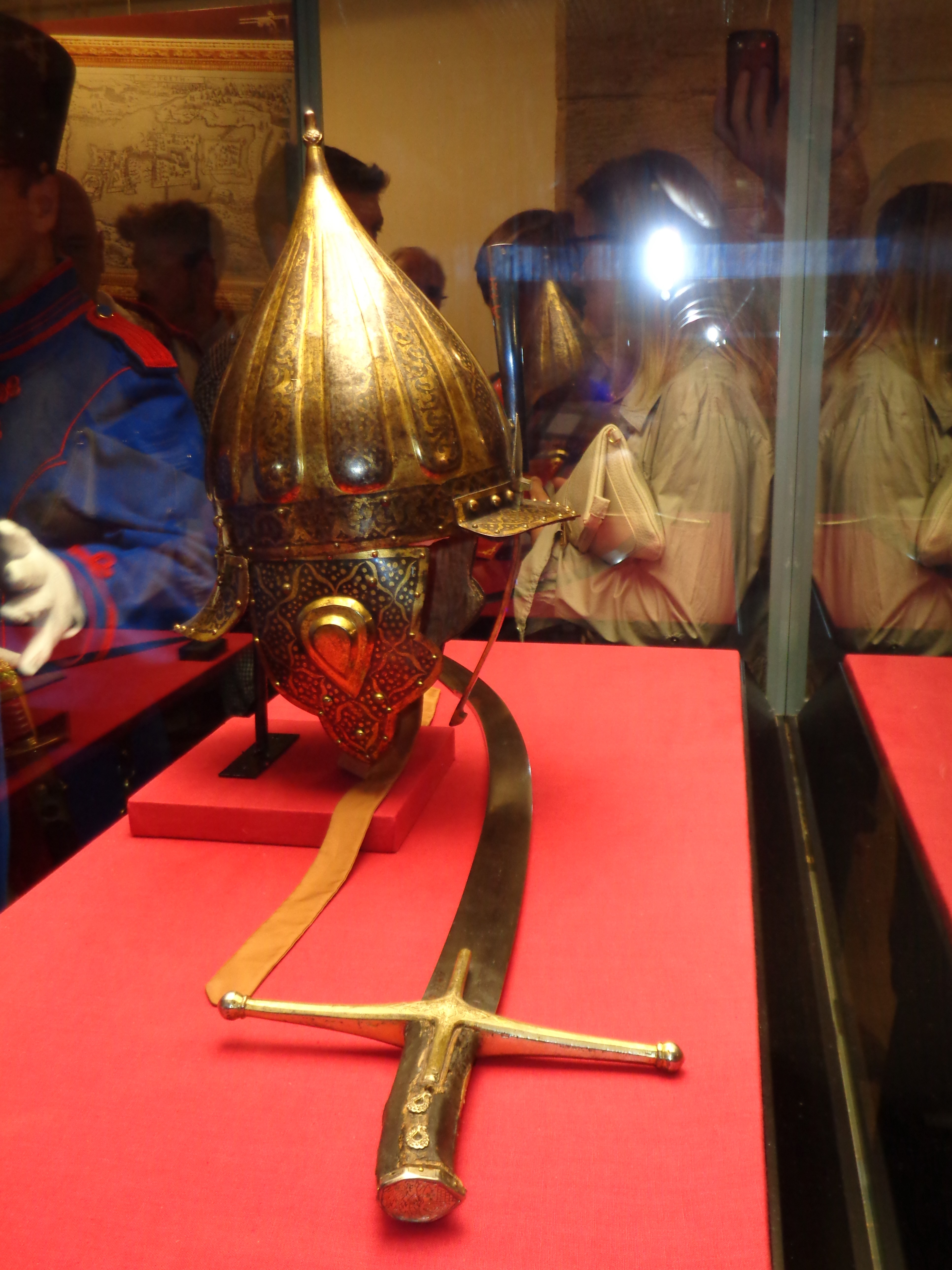 Sabre and helmet of Nikola IV Šubić Zrinski (1508-1566), Ban (Viceroy) of Croatia, national hero who fell at the end of the battle of Szigetvár in Hungary, at an exhibition in Čakovec County Museum on the 450th aniversary of the battle